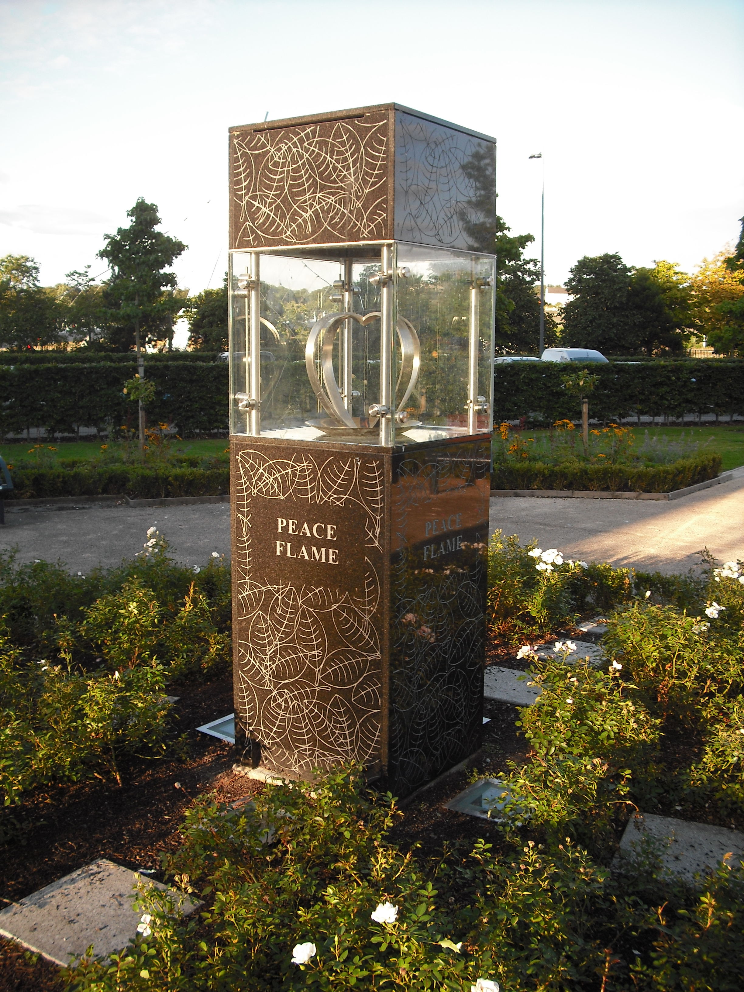 Derry Peace Flame, Derry, County Londonderry, Northern Ireland